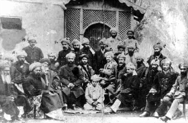 Group of Afghans after their victory at the Battle of Maiwand.